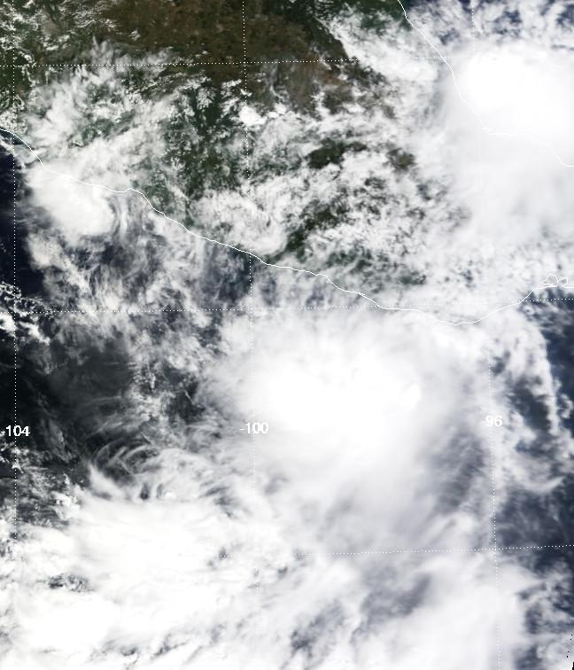 Tropical Storm Odile (2008) on October 10.